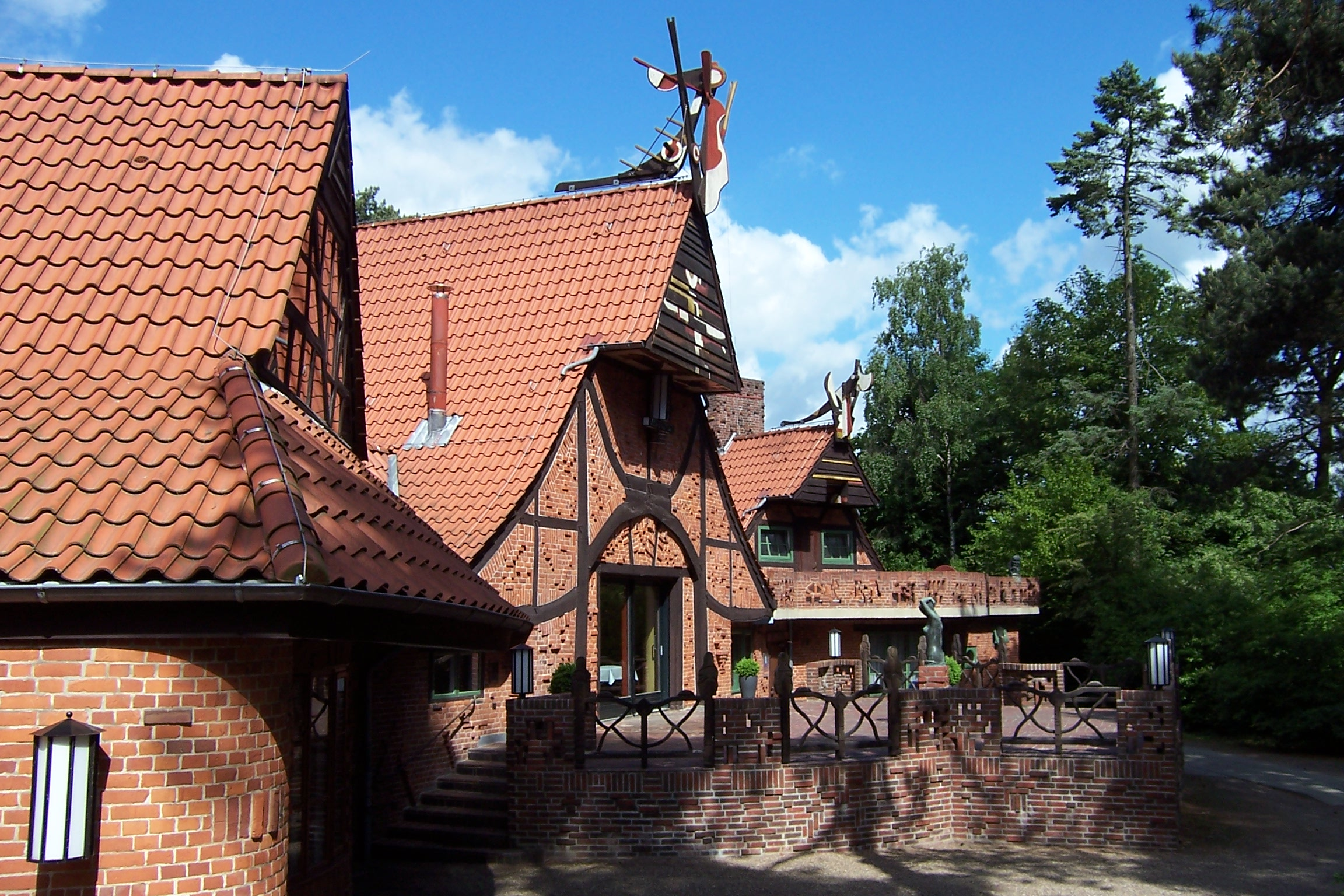 Kaffee Worpswede from the side